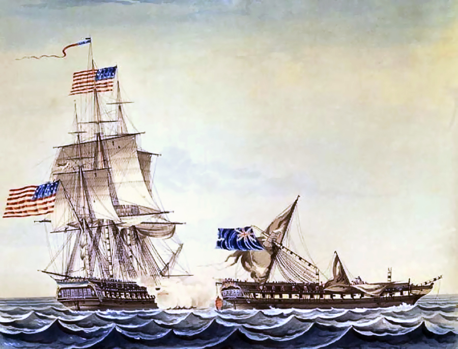 HMS Java fighting against USS Constitution